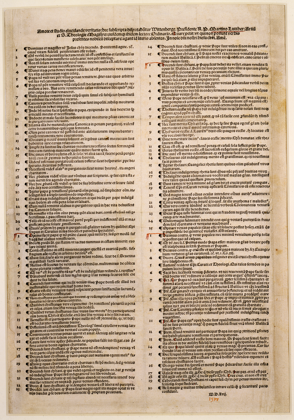 Martin Luther’s Disputatio pro declaratione virtutis indulgentiarum of 1517, commonly known as the Ninety-Five Theses, is considered the central document of the Protestant Reformation. Its complete title reads: “Out of love and zeal for clarifying the truth, these items written below will be debated at Wittenberg. Reverend Father Martin Luther, Master of Arts and of Sacred Theology and an official professor at Wittenberg, will speak in their defense. He asks this in the matter: That those who are unable to be present to debate with us in speech should, though absent from the scene, treat the matter by correspondence. In the Name of Our Lord Jesus Christ. Amen.” The document went on to list 95 clerical abuses, chiefly relating to the sale of indulgences (payment for remission of earthly punishment of sins) by the Roman Catholic Church. Luther (1483–1546), a German priest and professor of theology, became the most important figure in the great religious revolt against the Catholic Church known as the Reformation. While he intended to use the 95 theses as the basis for an academic dispute, his indictment of church practices rapidly spread, thanks to the then still-new art of printing. By the end of 1517, three editions of the theses were published in Germany, in Leipzig, Nuremberg, and Basel, by printers who did not supply their names. It is estimated that each of these early editions was of about 300 copies, of which very few survived. This copy in the collections of the Berlin State Library was printed in Nuremberg by Hieronymus Höltzel. It was discovered in a London bookshop in 1891 by the director of the Berlin Kupferstichkabinett (Museum of Prints and Drawings) and presented to the Royal Library by the Prussian Ministry for Education and Culture. Catholic Church; Reformation; Theology